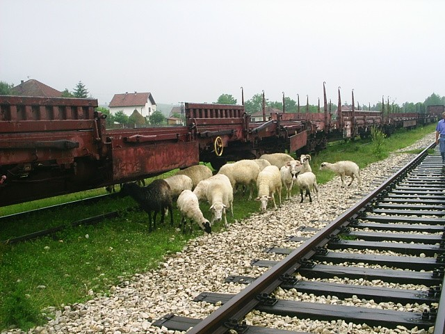 A train track to Vareš, BiH